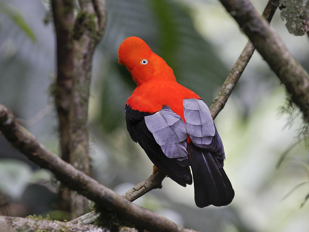 Male Rupicola peruviana, Manu Road, at 1200 m on the east slope of the Andes, SE Peru, October 2009.